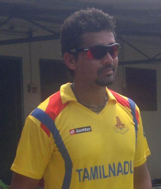 Indian cricketer Murali Vijay